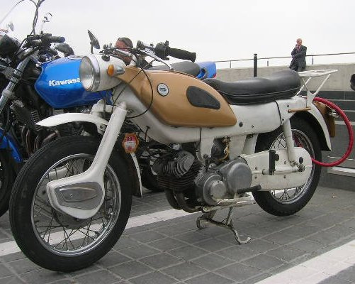 taken at Southend 2011